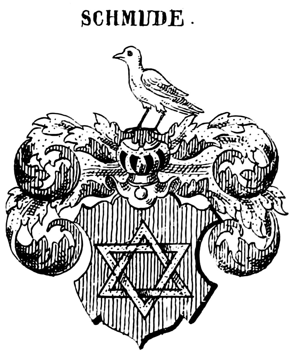 Coat of arms of the Smuda of Trzebiatowski family.